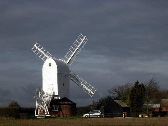 Photograph of Aythorpe Roding wimdmill